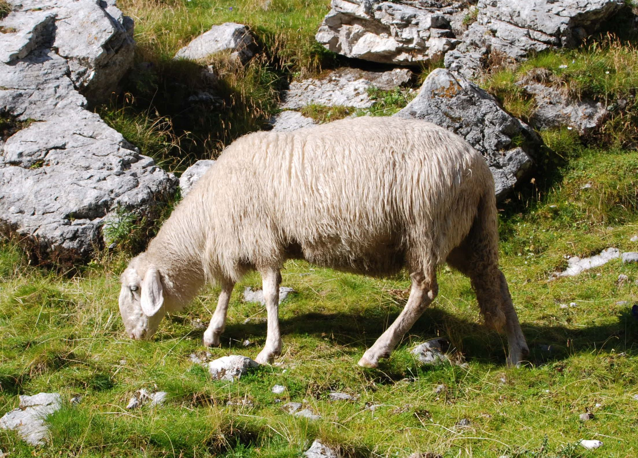 The Jezersko-Solčava breed of sheep in its original environment. Molič Pasture, the Dleskovec Plateau, the Kamnik–Savinja Alps (northern Slovenia).